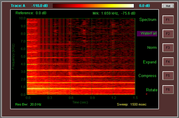 Acoustic spectrogram of the note G played on a Piano. In this spectrogram, the vertical axis represents frequency linearly extending from 0 to 10 kHz, and the horizontal axis represents time over an interval of 1.5 seconds. Generated with Fatpigdog's PC based Real Time FFT Spectrum Analyzer